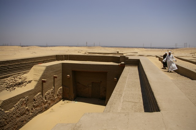 Tomb of Den, Abydos, Um el-Qaab